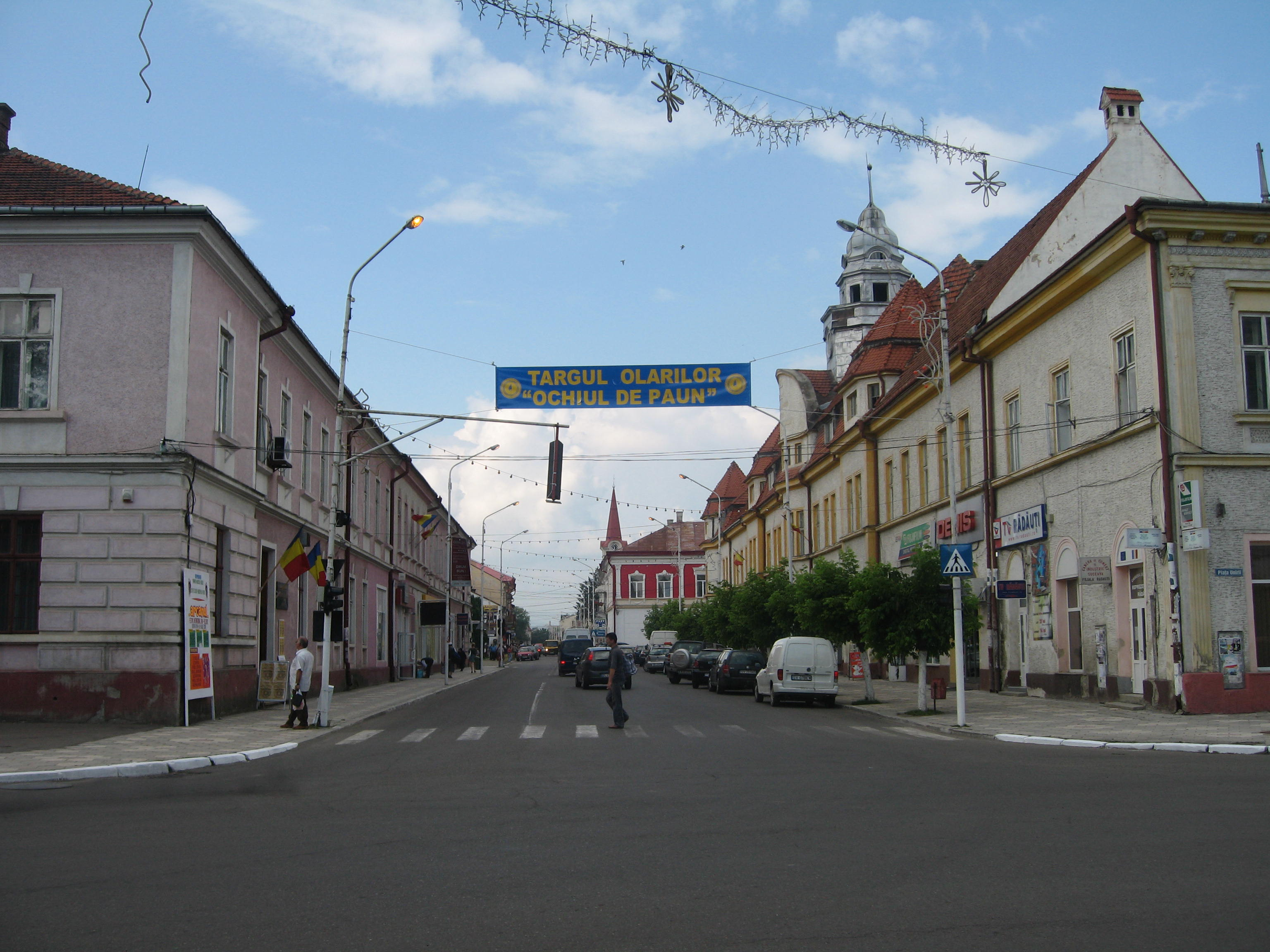 Centrul oraşului Rădăuţi